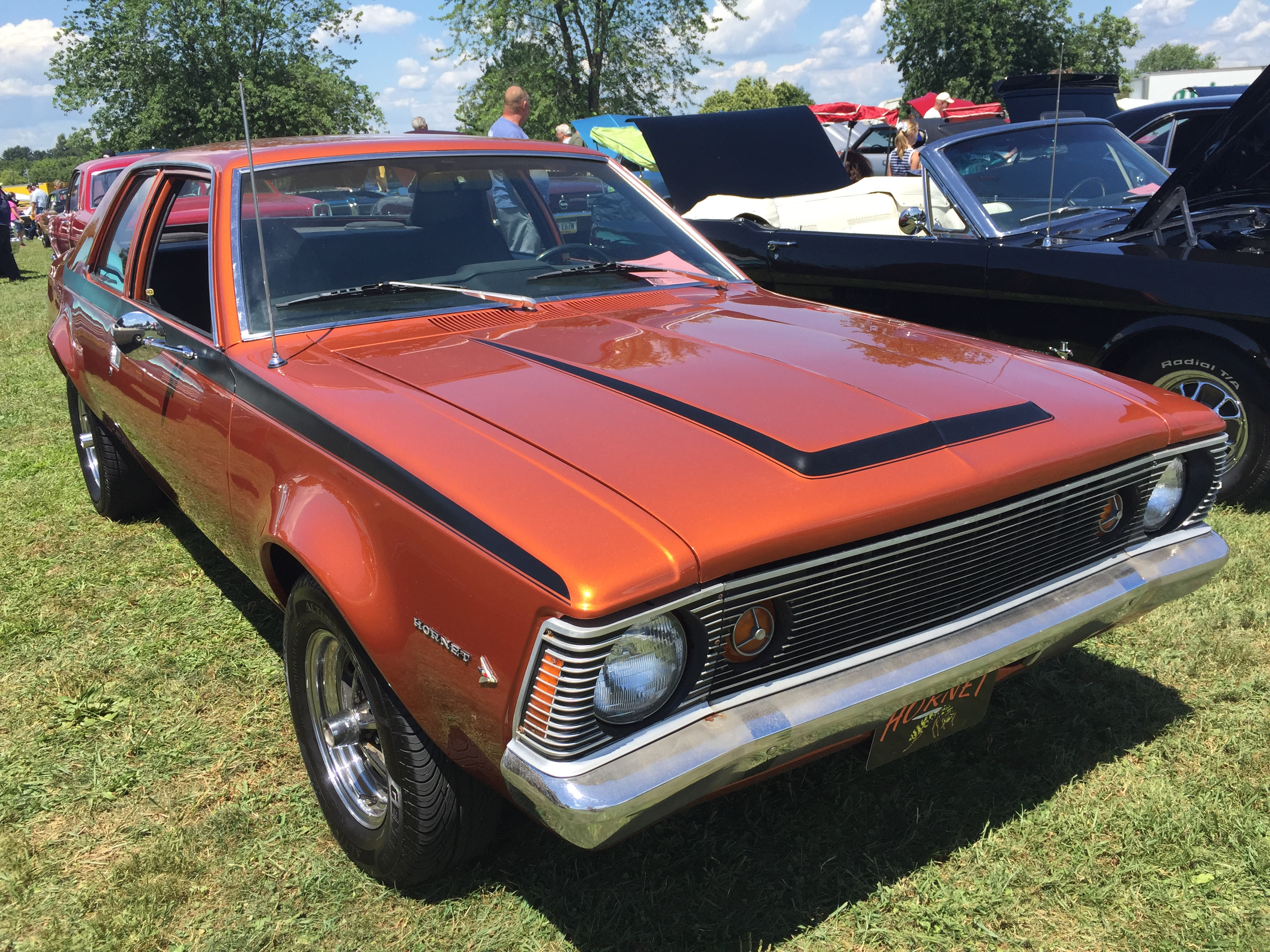 1970 AMC Hornet, an economical compact car, base two-door sedan built by American Motors Corporation (AMC). This car is finished in Bittersweet Orange (paint code P79) and has been customized with black bodyside stripes as well as a black accent on the hood. The road wheels are AMC's "Magnum 500" chrome (1968) versions to accent this car. Picture taken at the 52nd Annual "Das Awkscht Fescht" antique car show in Macungie, Pennsylvania.